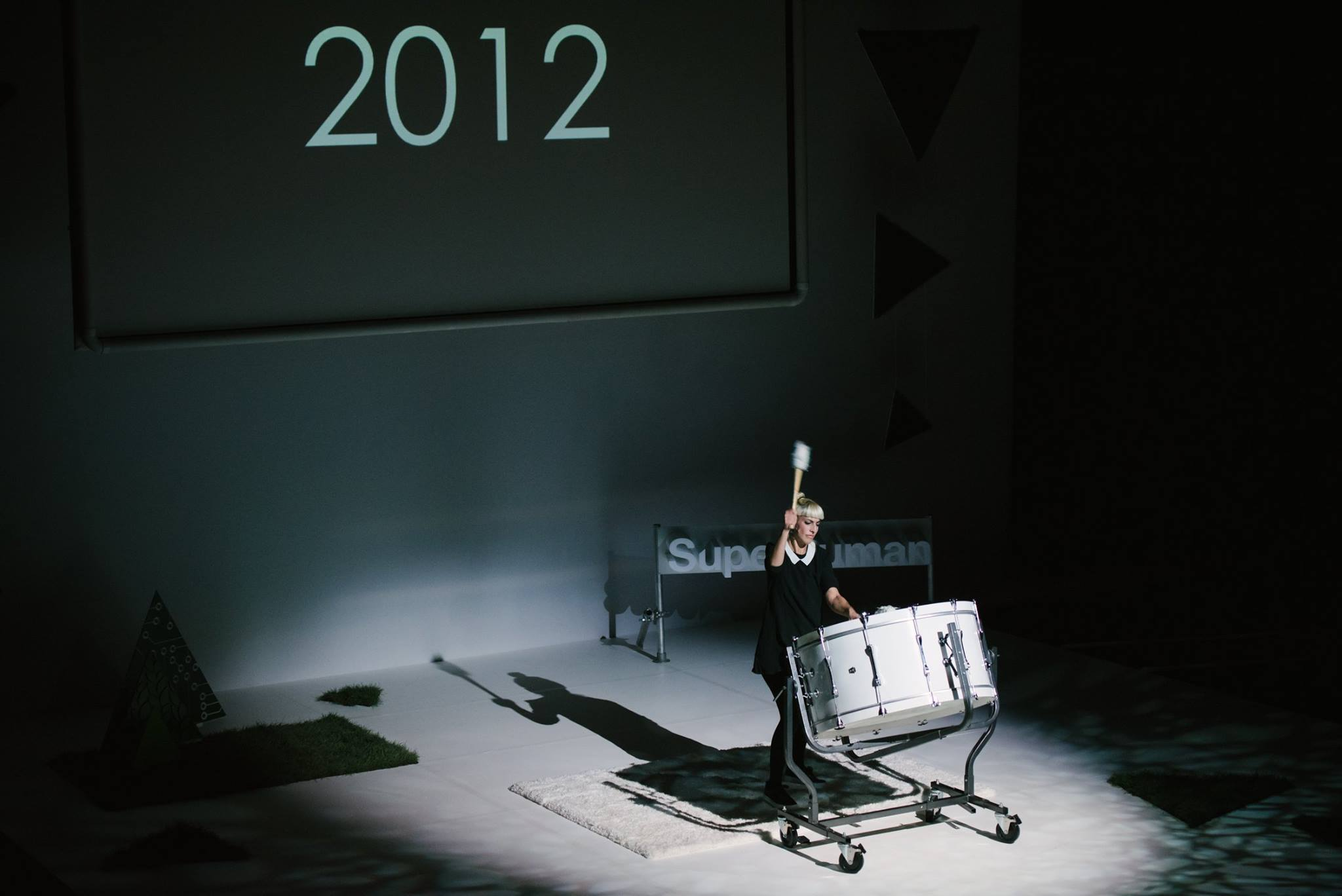 Cyborg Artist Moon Ribas performing seismic percussion